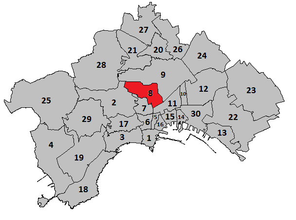 Stella in Naples